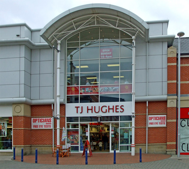 Entrance to T J Hughes, Cole Street, Scunthorpe This is the Cole Street entrance to T J Hughes which is the largest Department Store in Scunthorpe.